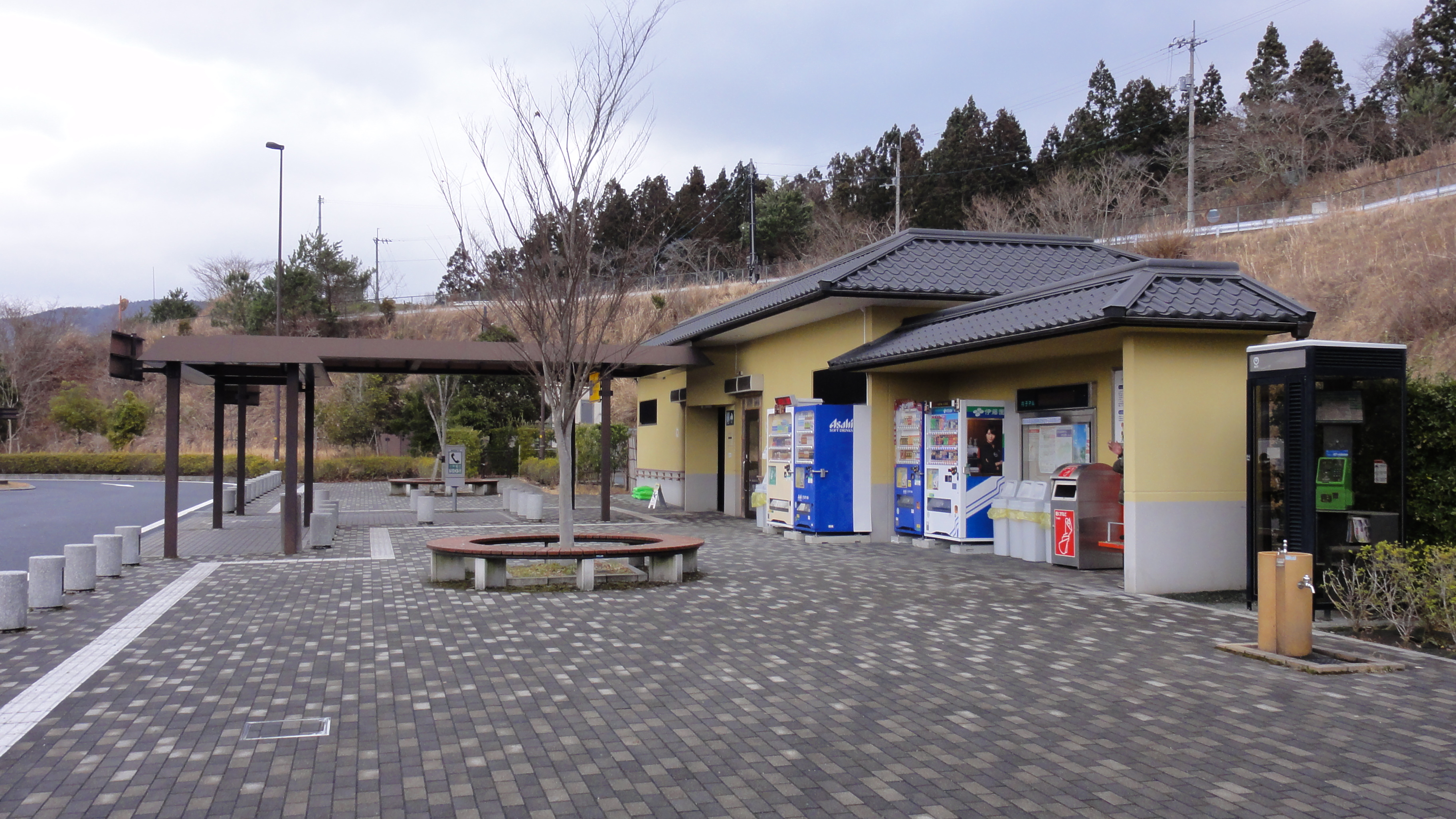 Uchiko Parking Area,Ehime pref..,Japan